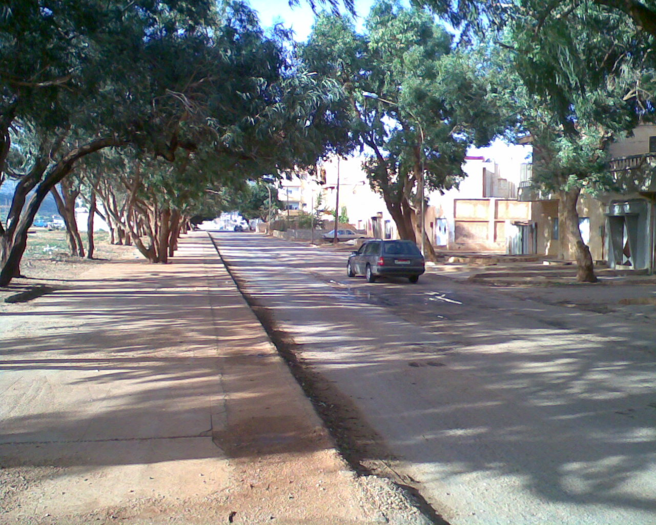 Modern town of Susah, near the place of the Ancient city of Apollonia, Libya.